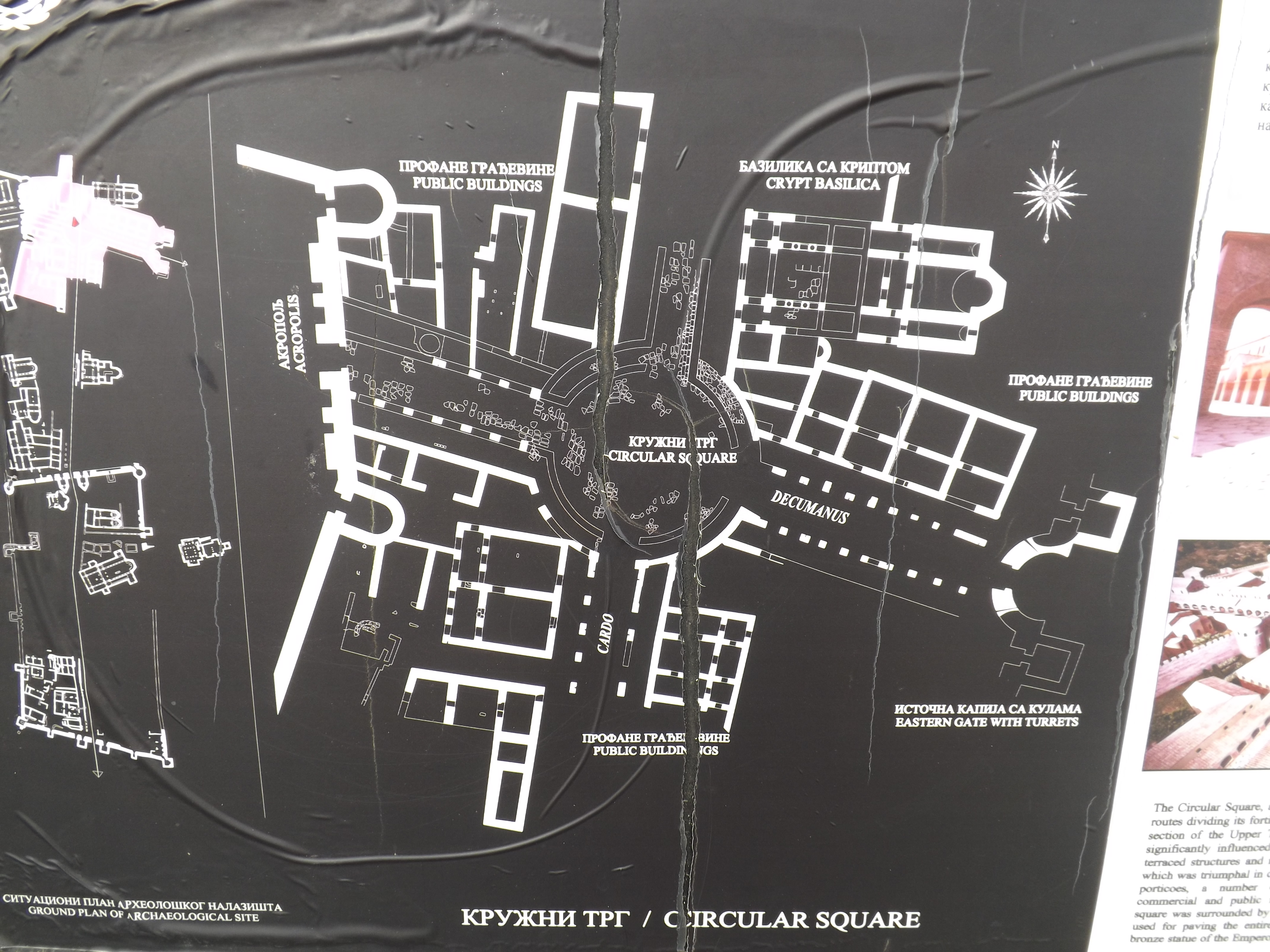 Plan of Circular Square in Justiniana Prima, Lebane, Serbia